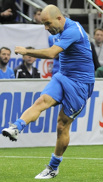 Luigi Di Biagio